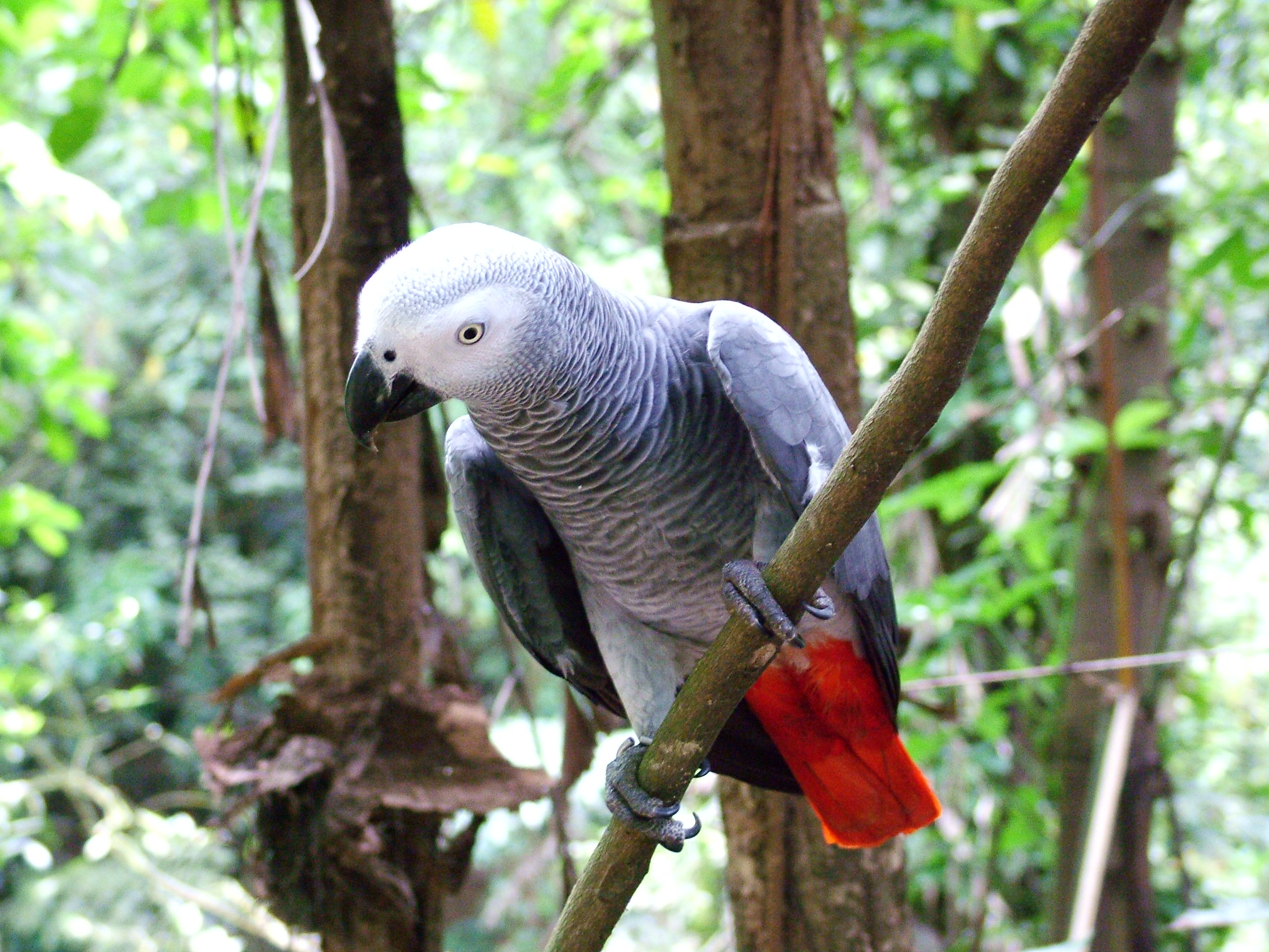 Congo African Grey Parrot (Psittacus erithacus erithacus) at a bird park in Singapore.